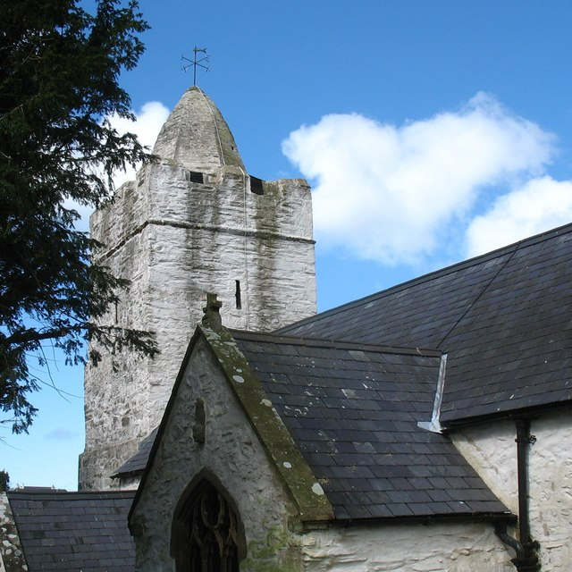 The capped tower of Eglwys Mechell Sant